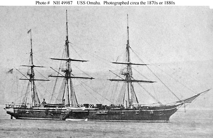 Photo from the US Navy archives